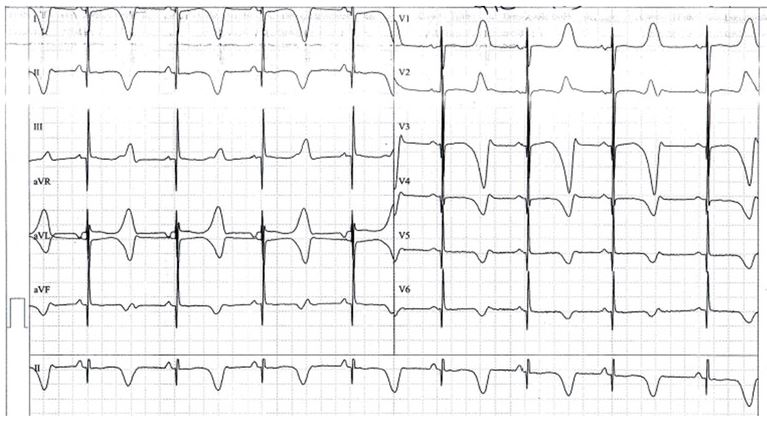 Electrocardiogram demonstrating markedly prolonged QT interval recorded from a 10-year-old Moroccan boy with Jervell and Lange-Nielsen syndrome.